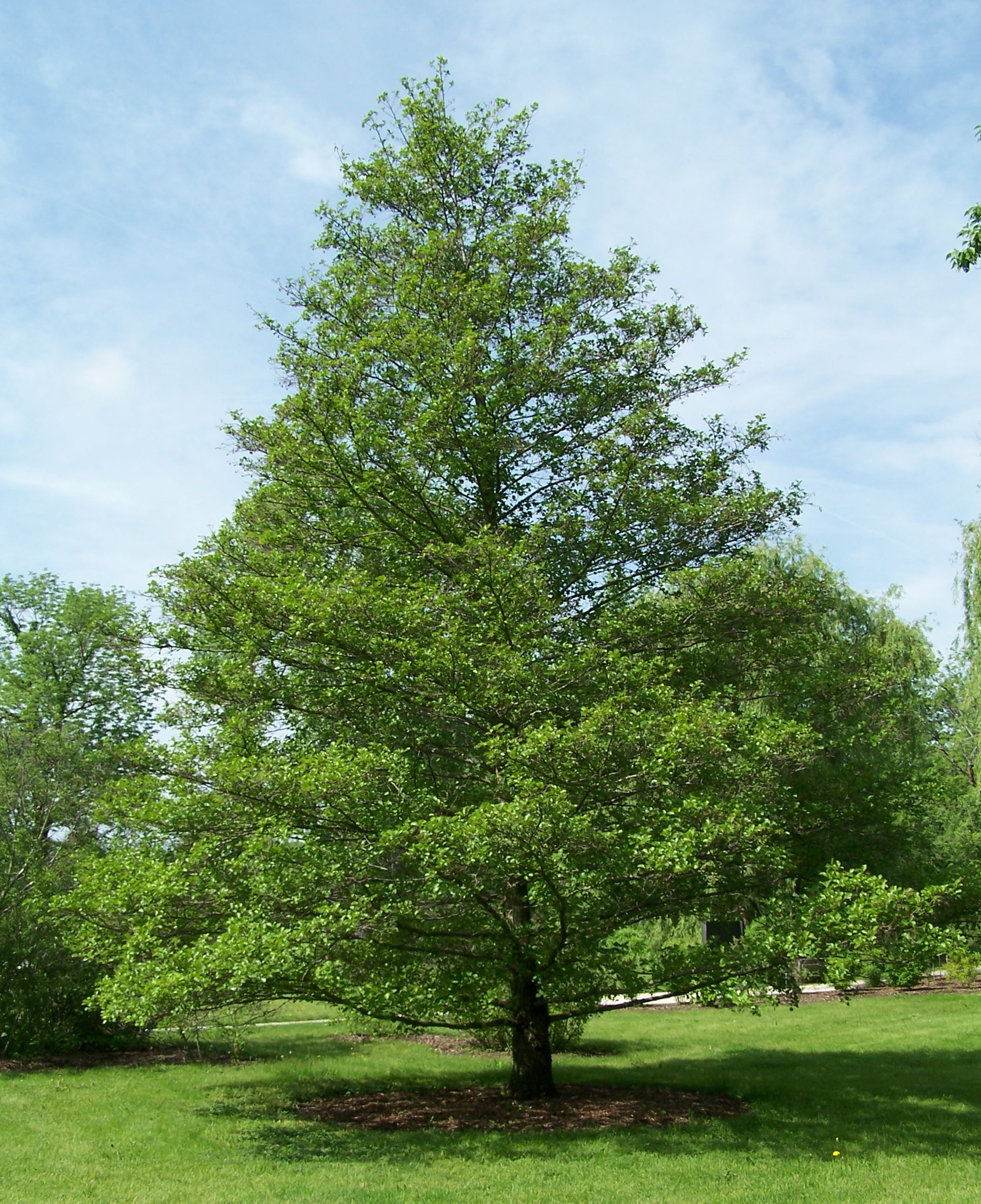 Black Alder Tree, Alnus glutinosa Morton Arboretum accession 301-86*4